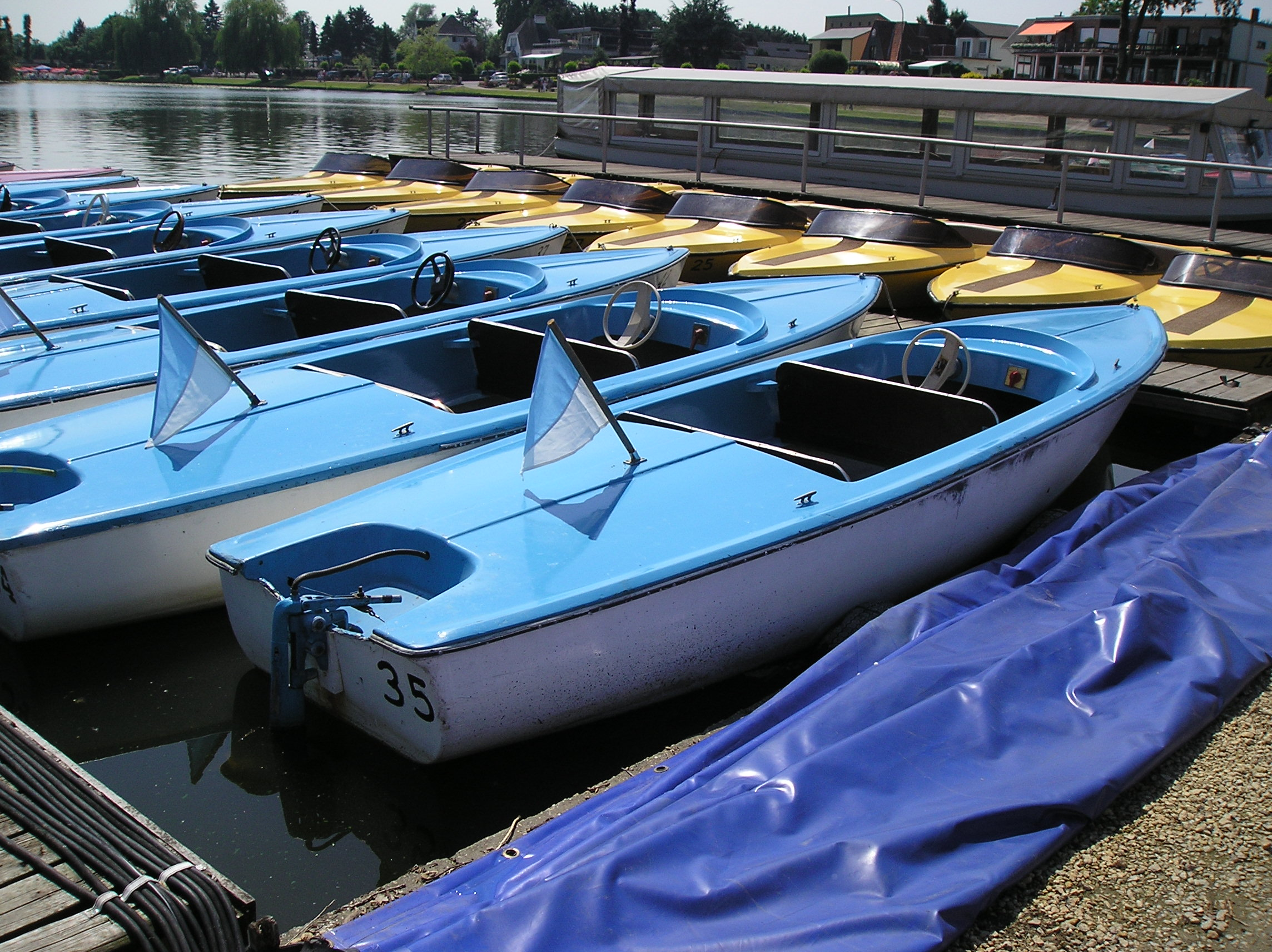 Electric boats for hire. Donkmeer lake